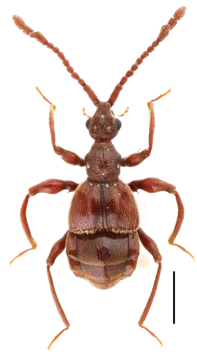 Male habitus of Pselaphodes zhongdianus. Scale: 1.0 mm.